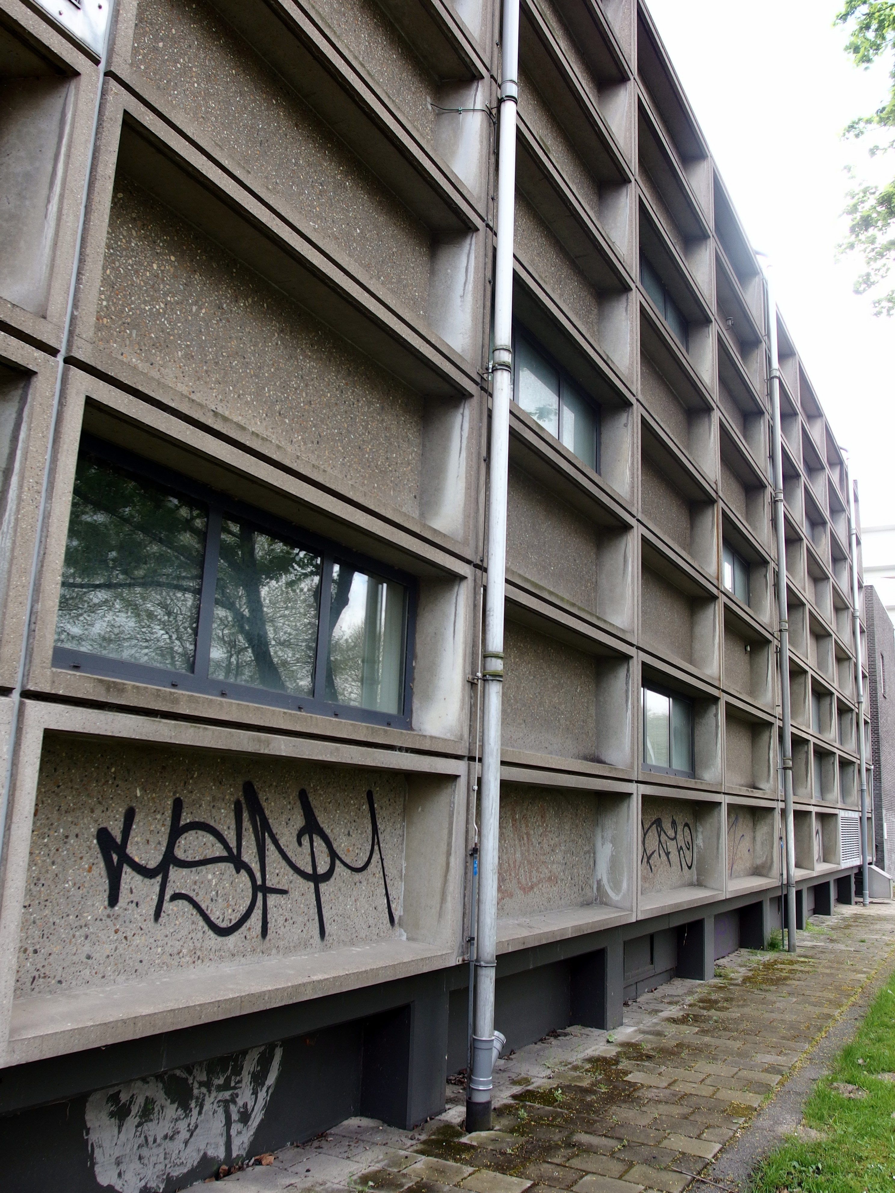 2013-05-12 in Amsterdam Nieuw-West; Slotervaart. Telefooncentrale Amsterdam-Slotervaart.